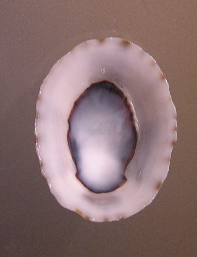 Patelloida insignis C. T. Menke, 1843; a true limpet from the family Lottiidae;Tasmania